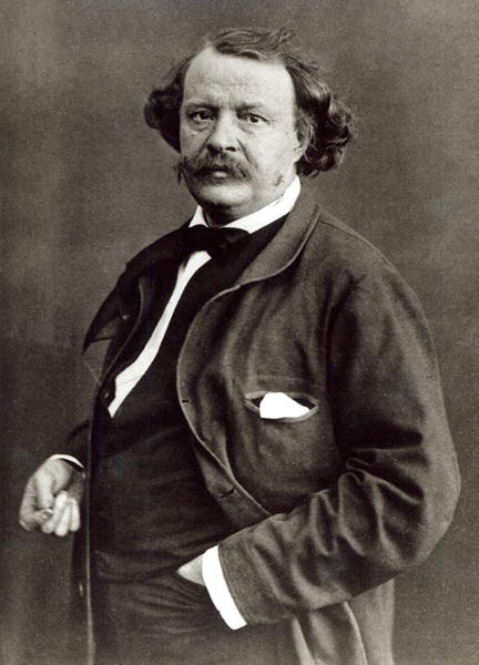 Bibliotheque Nationale, Paris, France; (add. info.: Gaspard Felix Tournachon (1820-1910); photographer who used a balloon to take photographs of Paris; self portrait; auto portrait); Archives Charmet; French, out of copyright